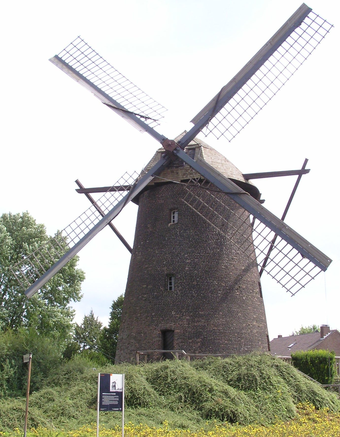 Windmill in Dinslaken-Hiesfeld This is a photograph of an architectural monument.